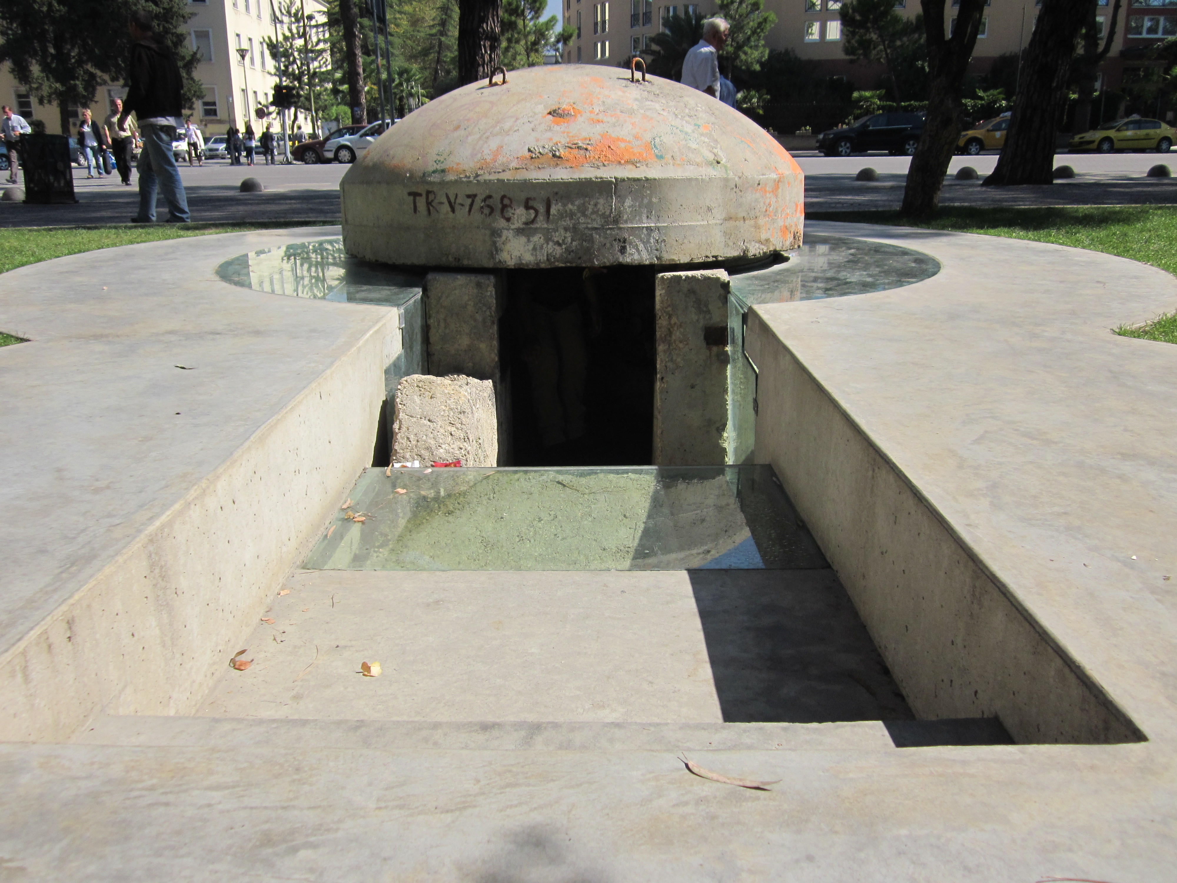 Bunker in the Post-bllok monument in Tirana (Rruga Ismael Qemali)